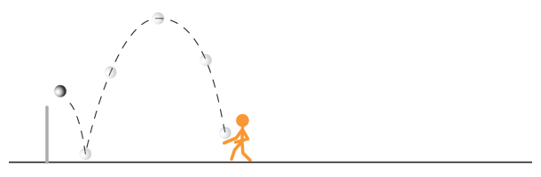 Image depicting an ideal fistball set